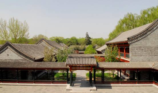 Langrun Garden Skyview